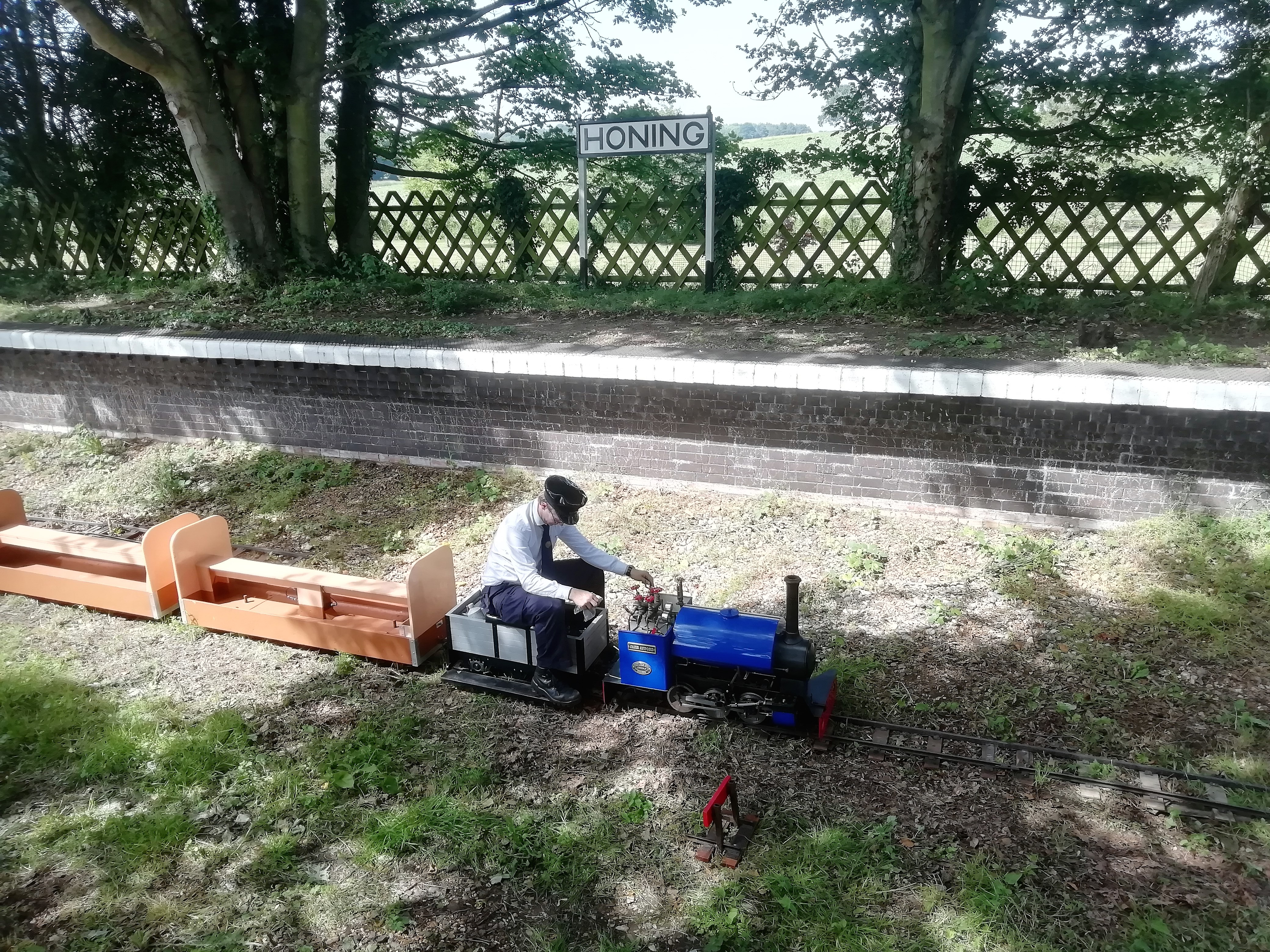 During the "one day re-opening" to mark the 60th anniversary of the closure, a miniature line was relaid and operated through the station.